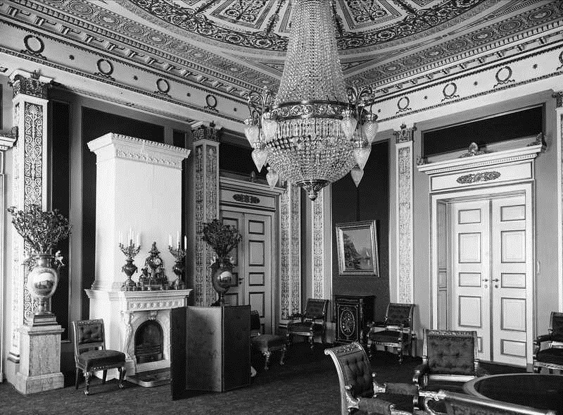 Interior of Royal Palace, Oslo photographed by Anders Beer Wilse in 1926. Croppet version.